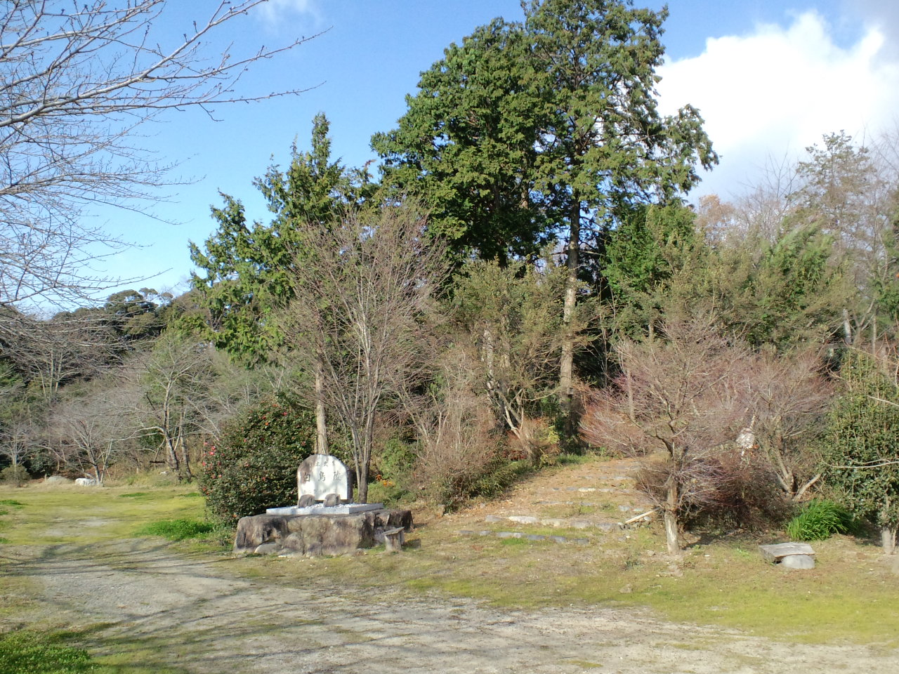 Shiratoriduka Kohun (Barrow) at Mie Prefecture in Japan.